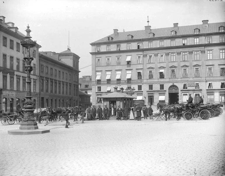 Brunkebergstorgs norra sida. Brunkebergsgatan till vänster 1896